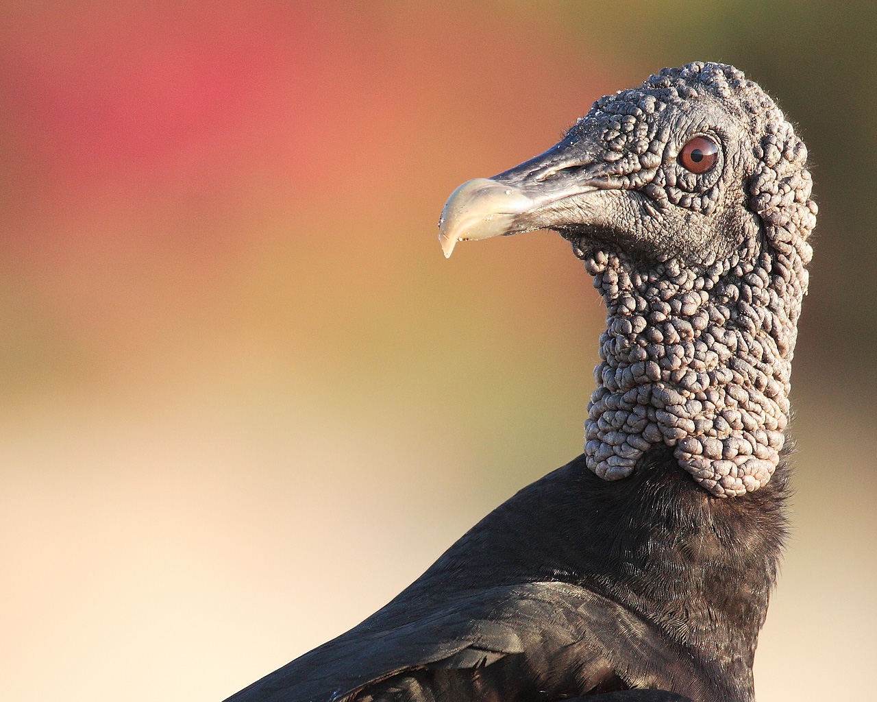 Black Vulture -- Farallon, Panama